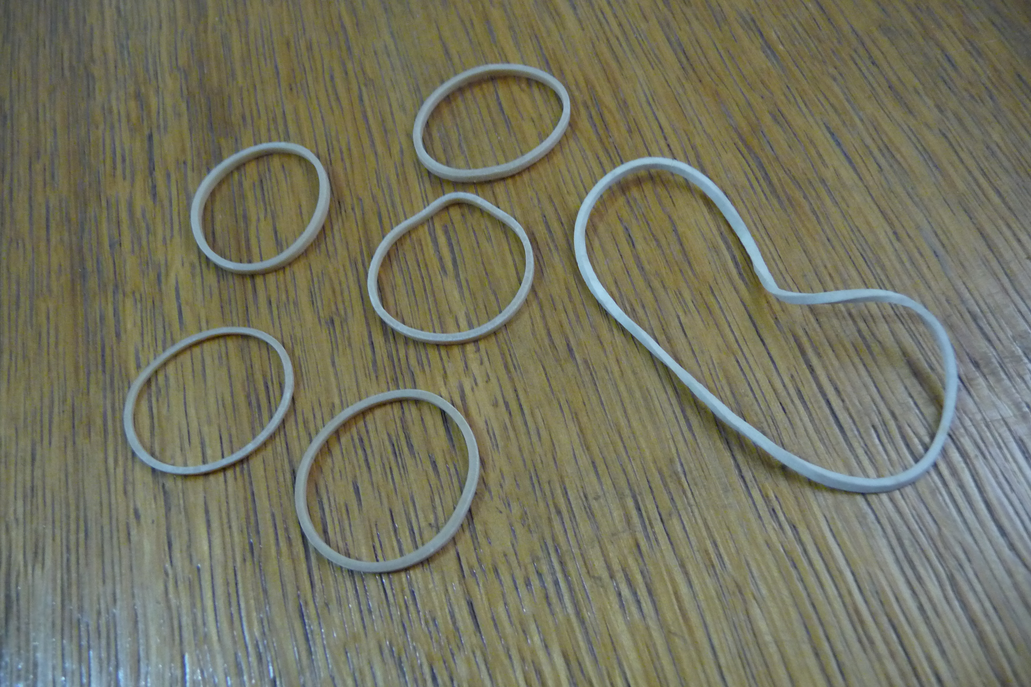 Office rubber bands of different sizes